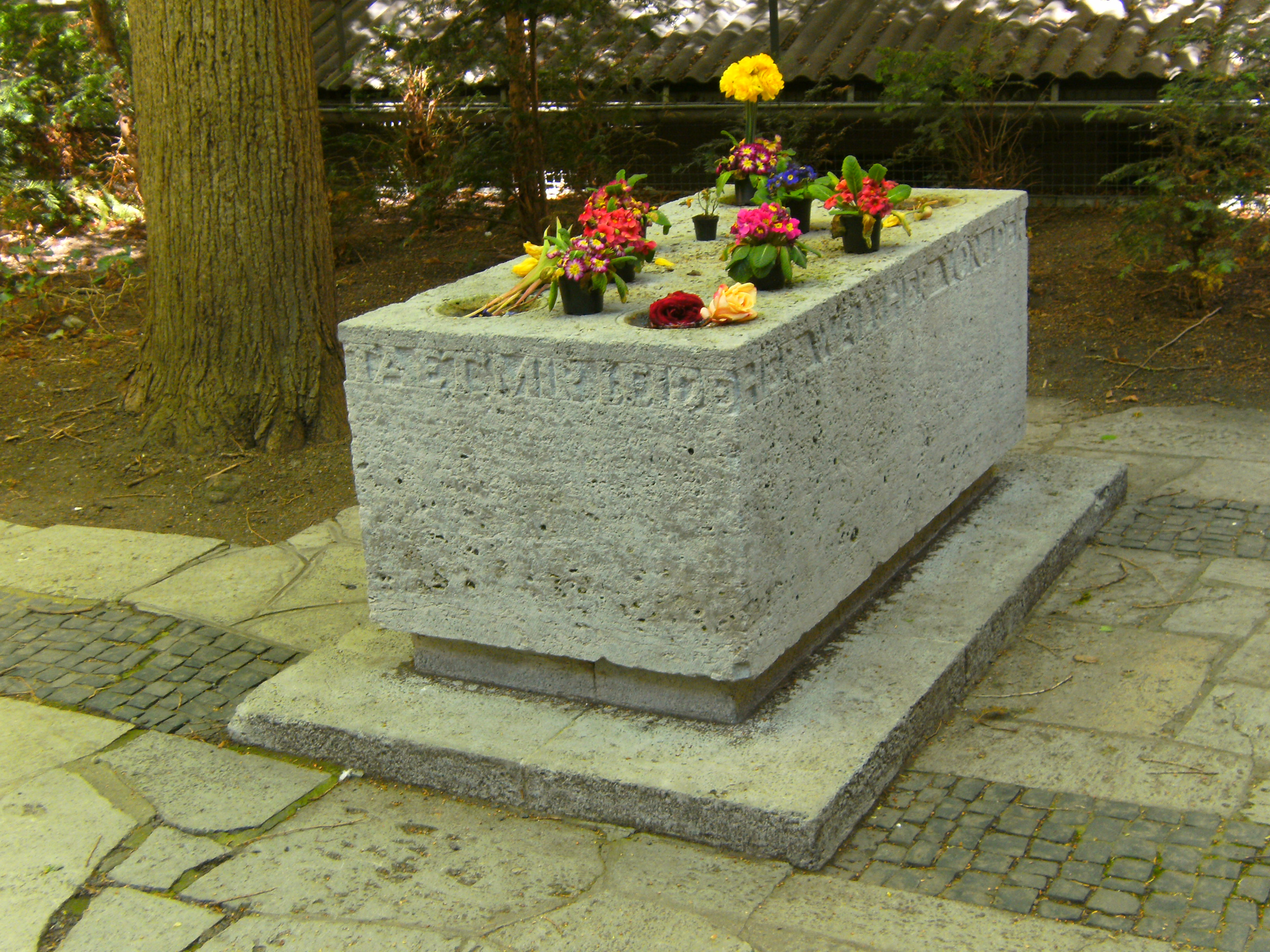 Flowers in memory of Walther von der Vogelweide at memorial stone in Lusamgärtchen in Würzburg, Germany at April, 19 2018.